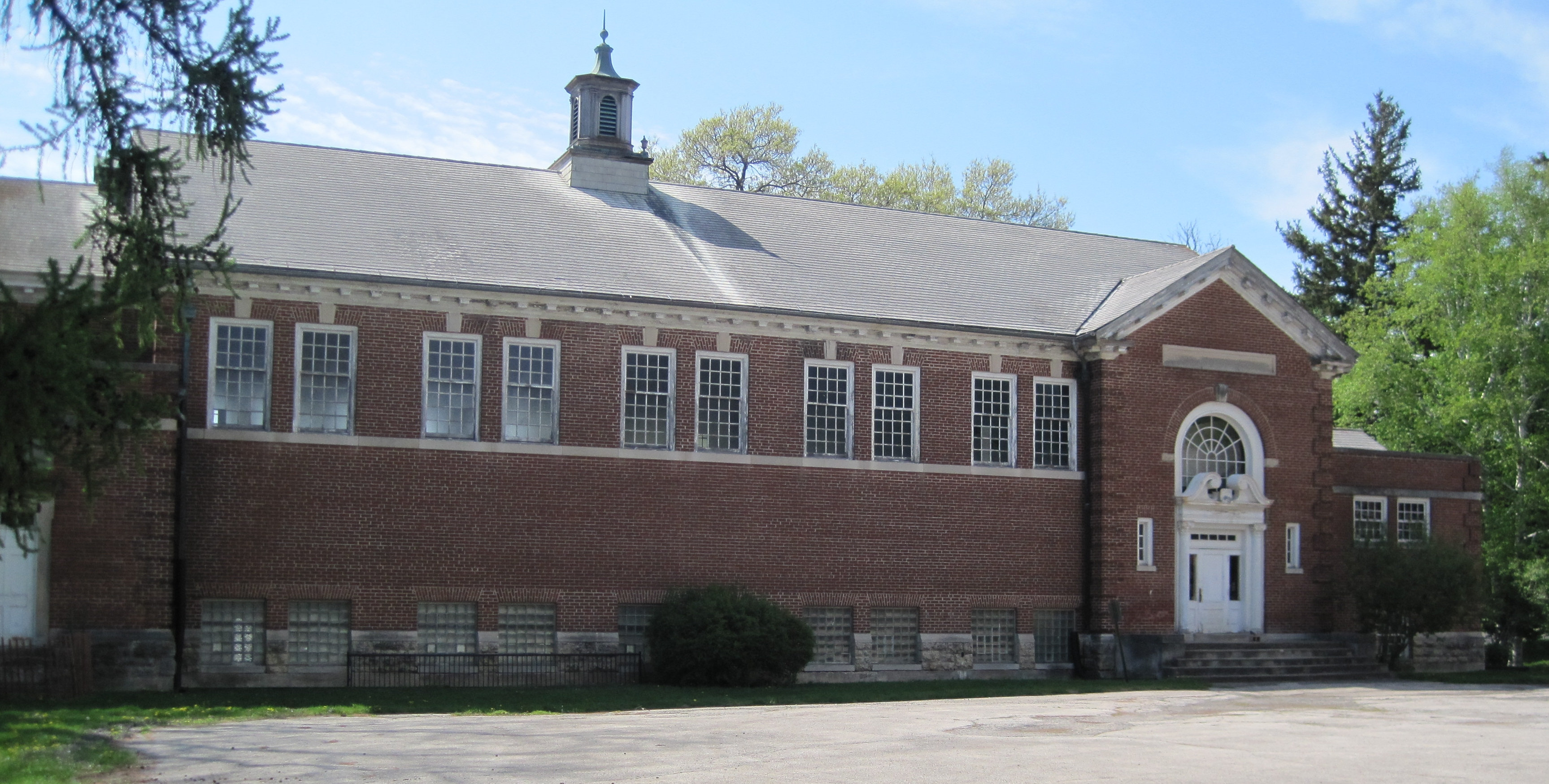 The Gymnasium on the former campus of Shimer College in Mount Carroll, Illinois, constructed in 1929 in the Georgian Revival style.